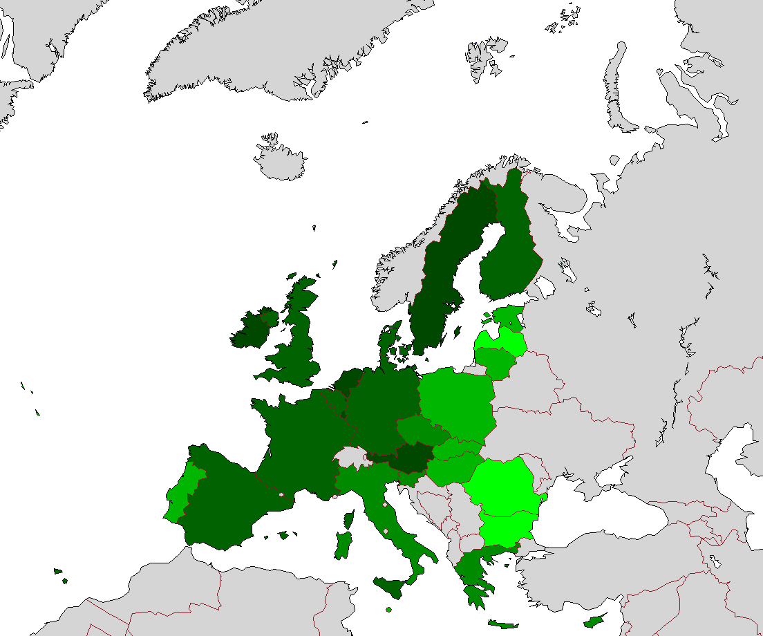 GDP per capita in 2008 2009